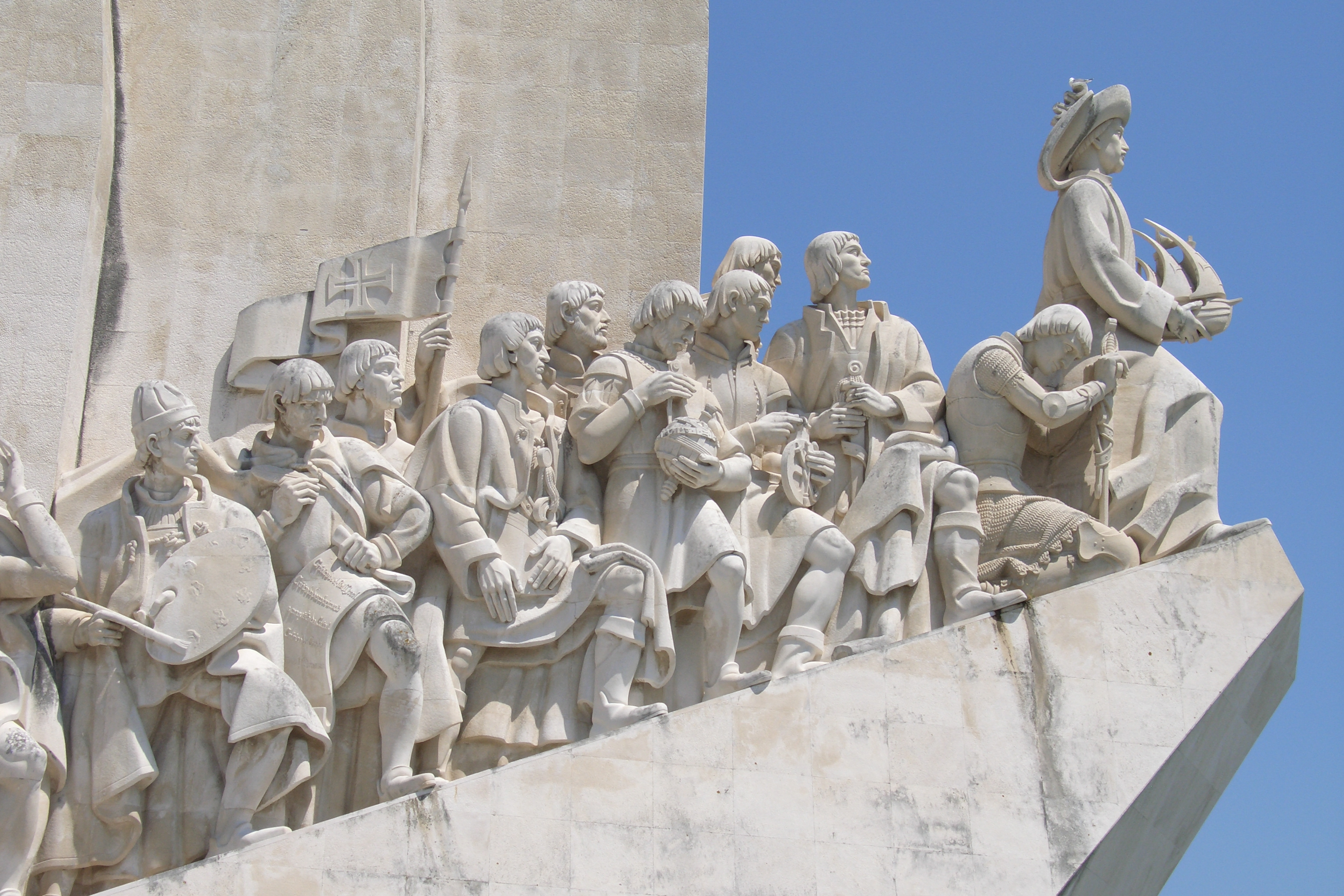 Monument to the Discoveries is a monument that celebrates the Portuguese who took part in the Age of Discovery of the 15th and 16th centuries. It is located on the estuary of the Tagus river in the Belém parish of Lisbon, Portugal, where ships departed to their often unknown destinations.